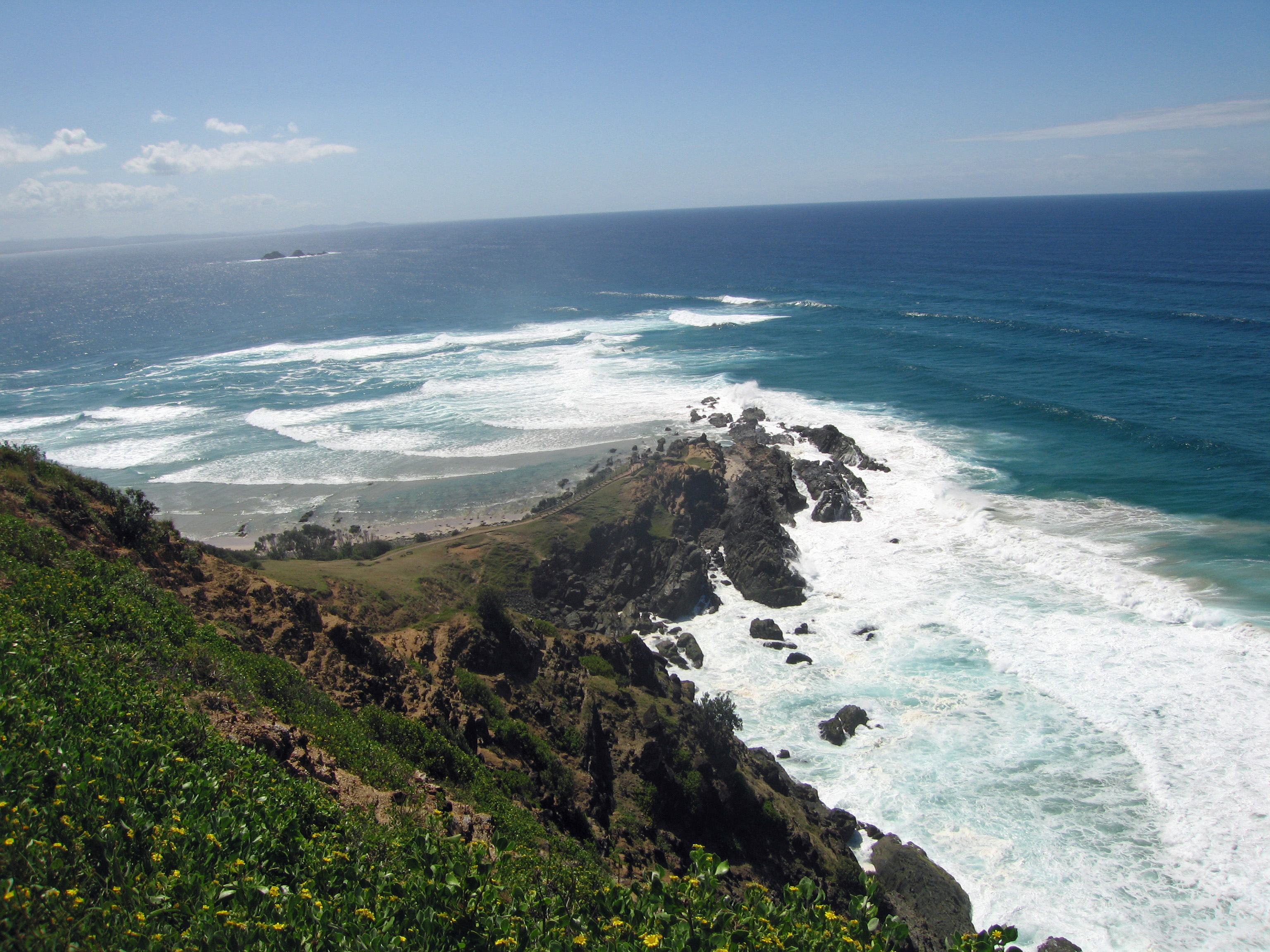 Byron Bay Most Eastern Point